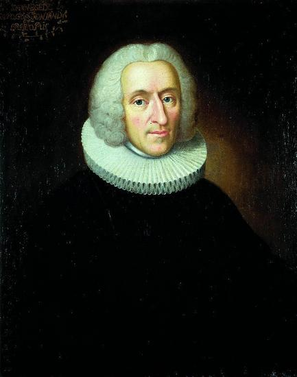 Portrait of Hans Egede